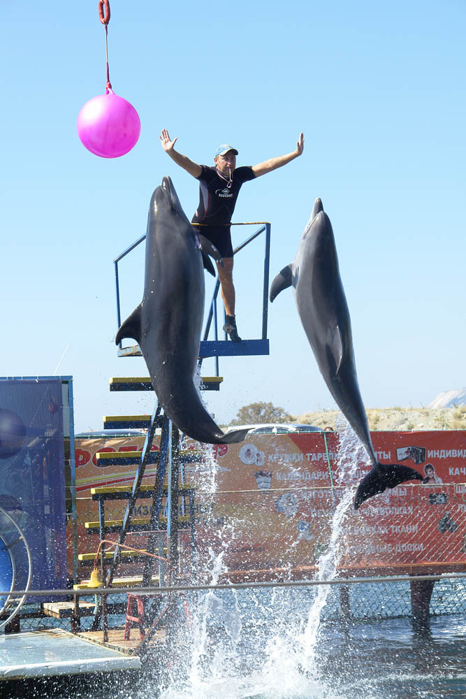 Dolphins and master